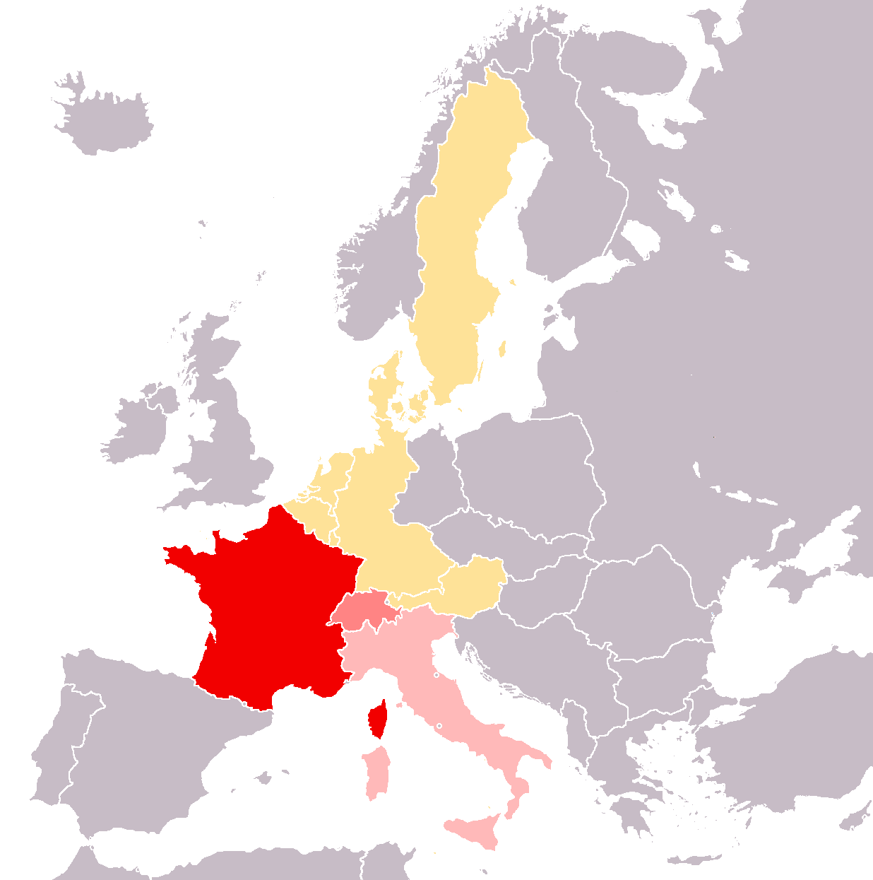 Map of Eurovision 1958